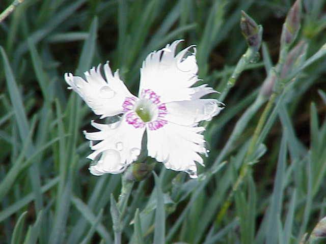 Species: Dianthus plumarius Family: Caryophyllaceae Image No. 1